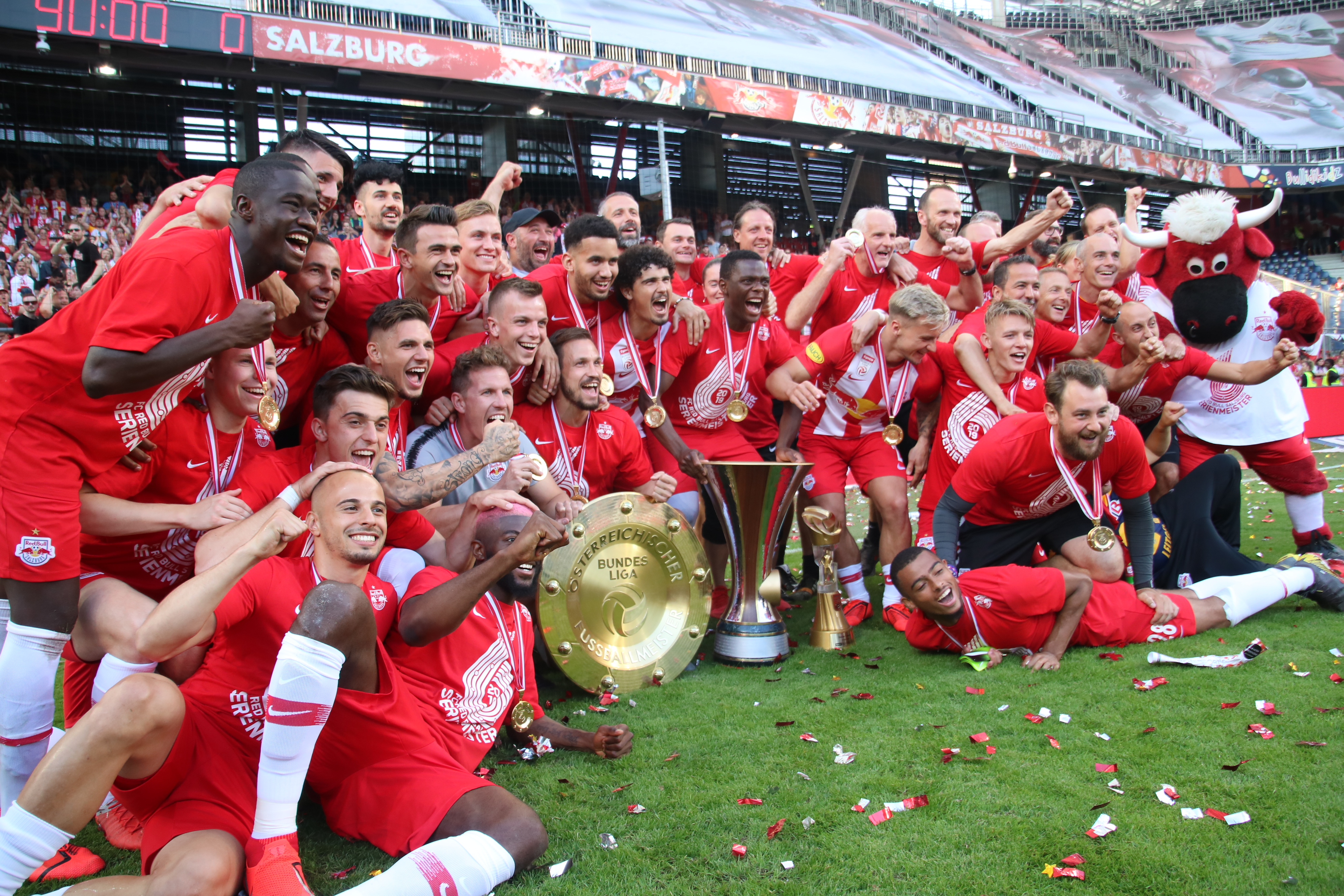 Celebrating the title 2019